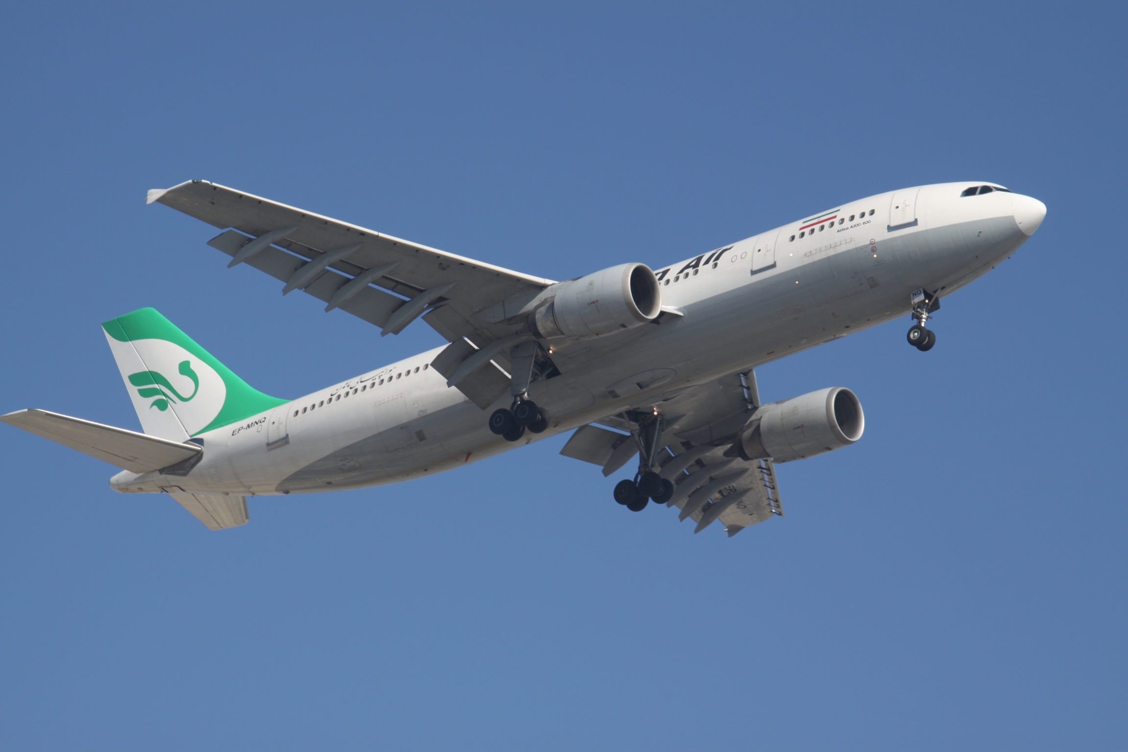 At Dubai International DXB